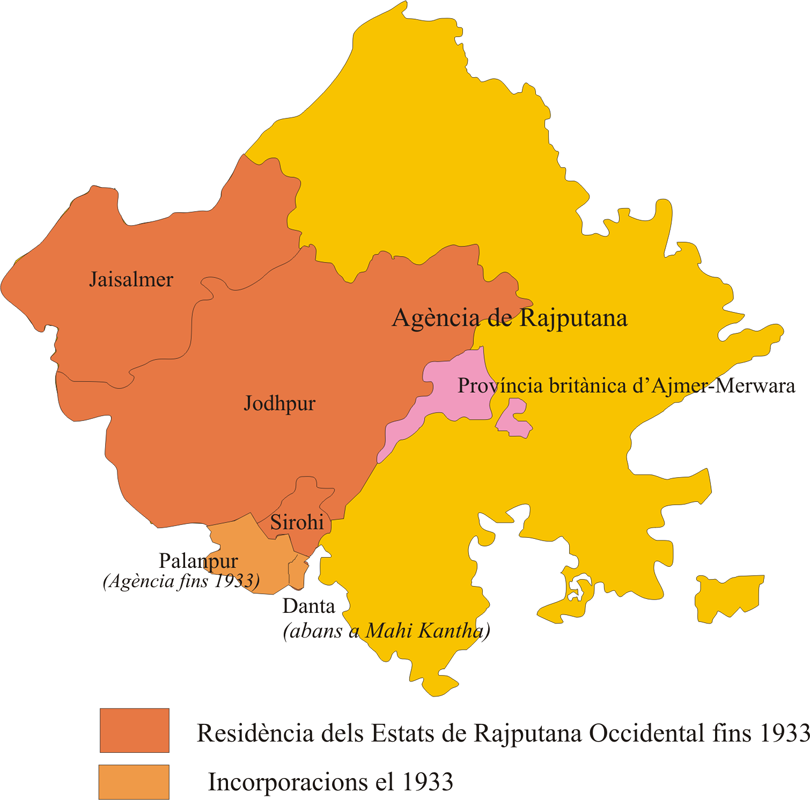 Agency of Western States of Rajputana